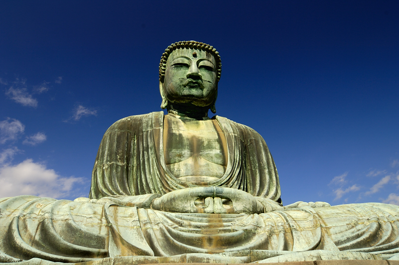 Kamakura Daibutsu of Kōtoku-in temple in Kamakura, Kanagawa.